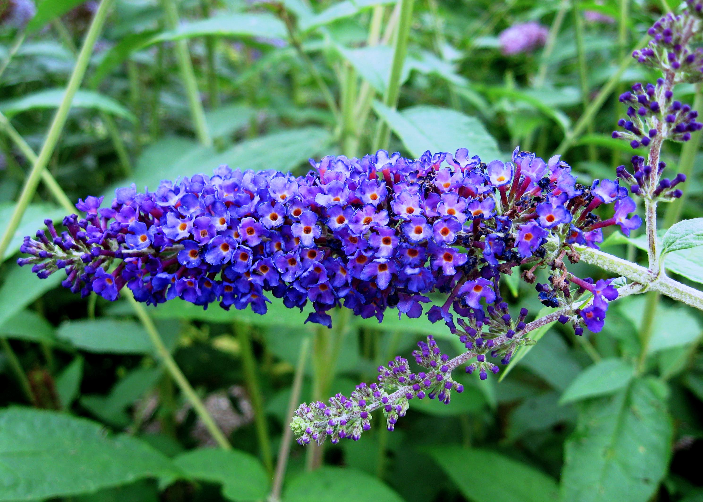 Photo taken at Longstock Park, UK, August 2012.